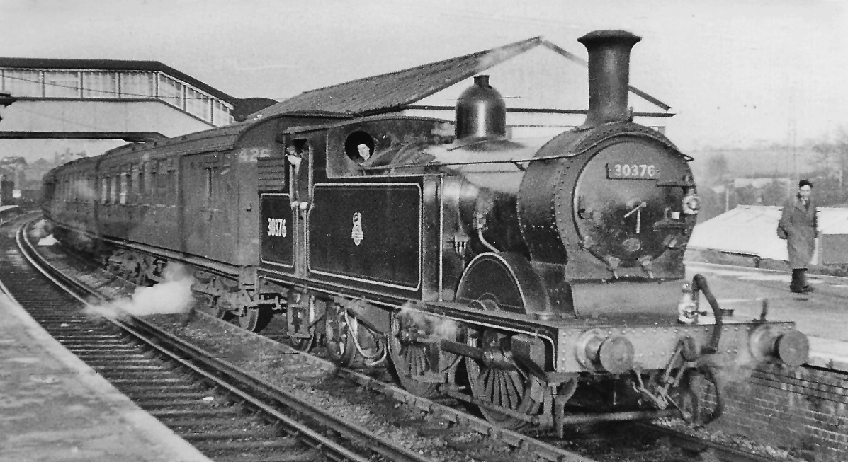 Local train to Winchester at Alton View NE, towards Farnham and London: ex-LSW Alton - Winchester line. The line was closed 5/2/73, but was acquired (Alton - Alresford) in 11/75 by the Mid-Hants Railway Society and thrives to this day as the 'Watercress Line'. The ex-LSW Drummond M7 class 0-4-4T No. 376 was built 5/1903 and withdrawn 1/59.